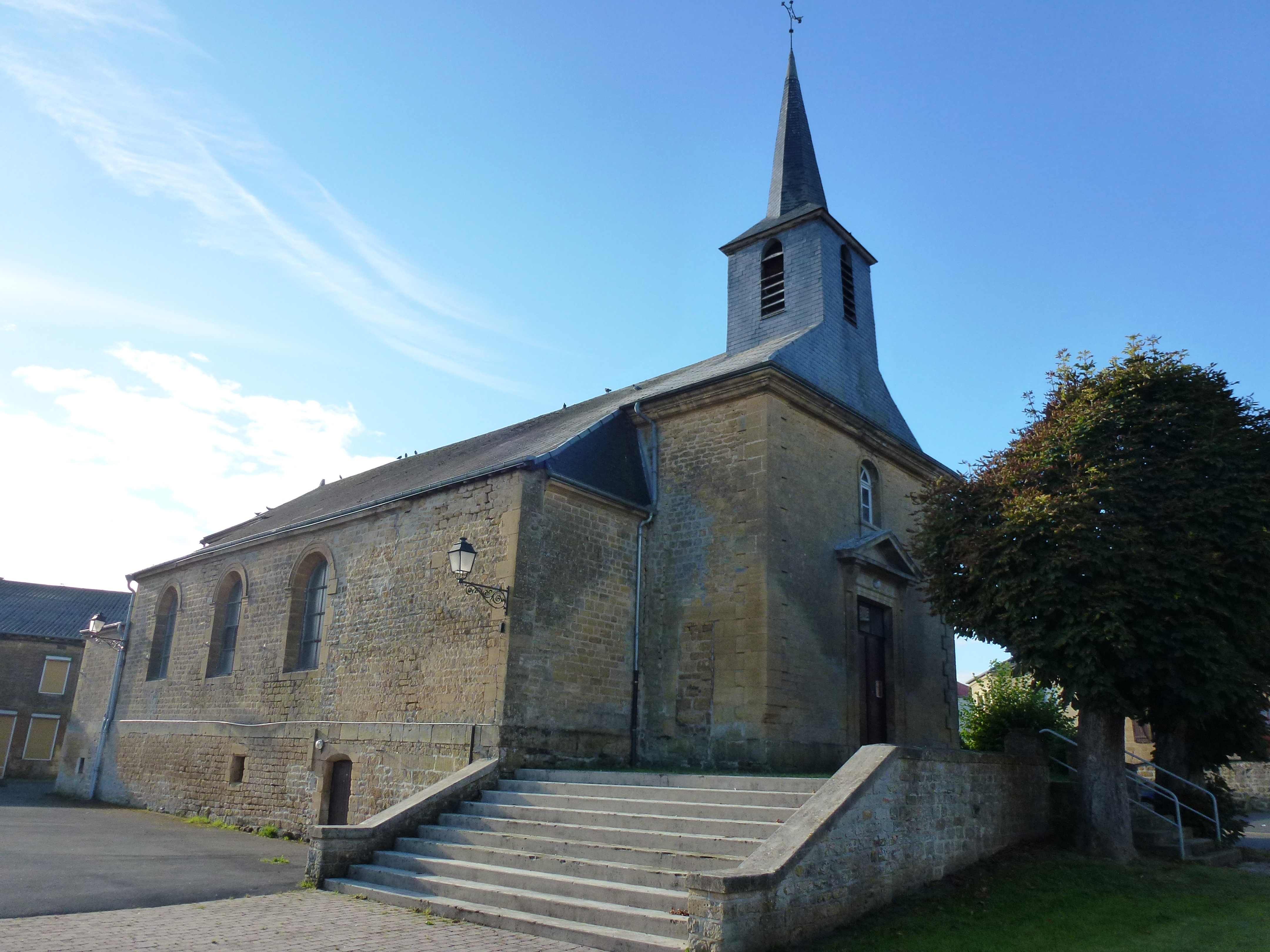 Haudrecy (Ardennes) église, façade